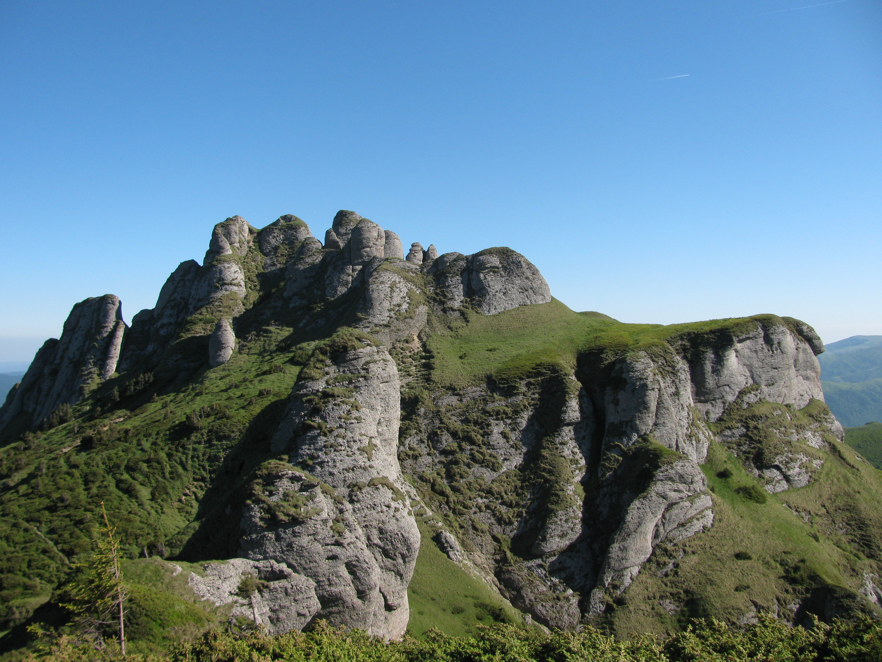 A characteristic landscape feature of Ciucaş mountains (Prahova County, Romania). Observe the limestone rock covered with grass.